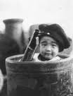 Meiko Nakamura (中村メイコ)) in a still photo of the Japanese film Edokko Ken-chan (『江戸っ子健ちゃん』, 1937) directed by Kei Okada